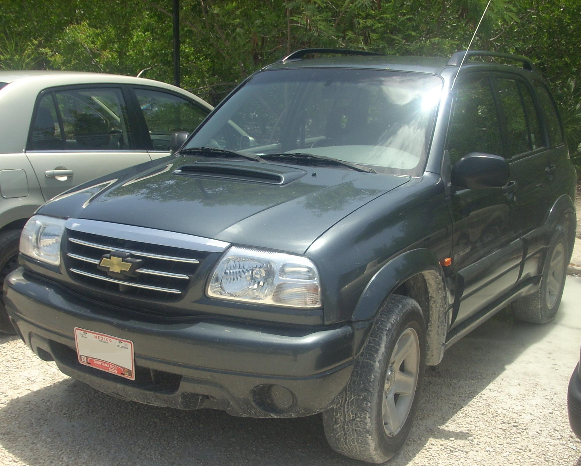 2006-2008 Chevrolet Tracker photographed in Cancun, Quintana Roo, Mexico